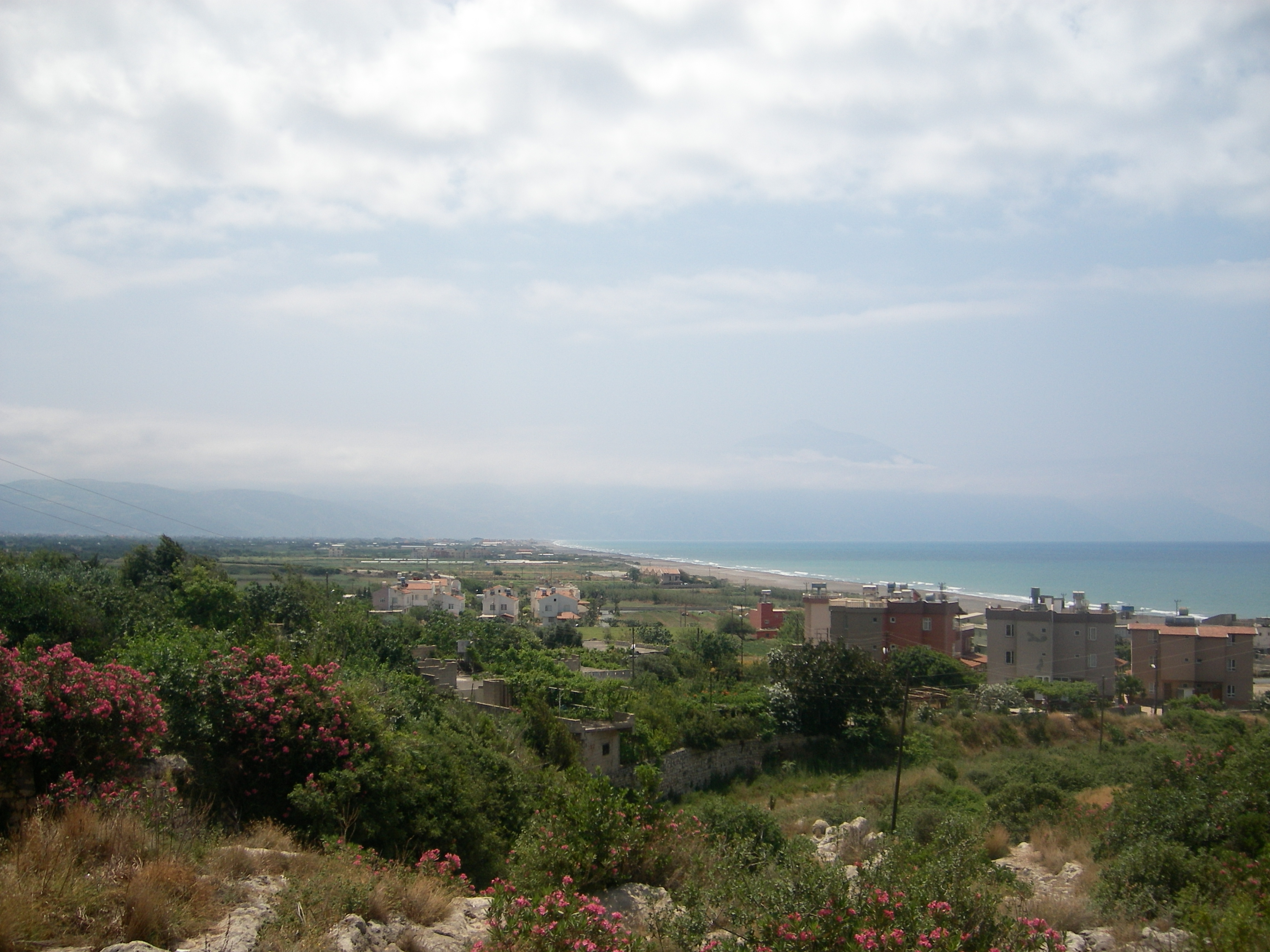 Samandağ, is a town in Hatay Province of southern Turkey, at the mouth of the Orontes River on the Mediterranean coast, near Turkey's border with Syria, 25 km. from the city of Antakya.